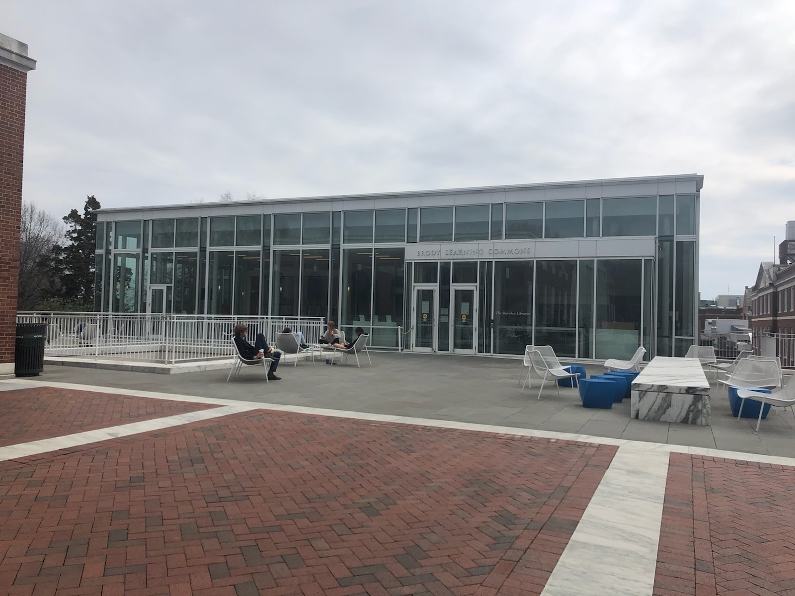 This is an image of the outside of the Brody Learning Commons.